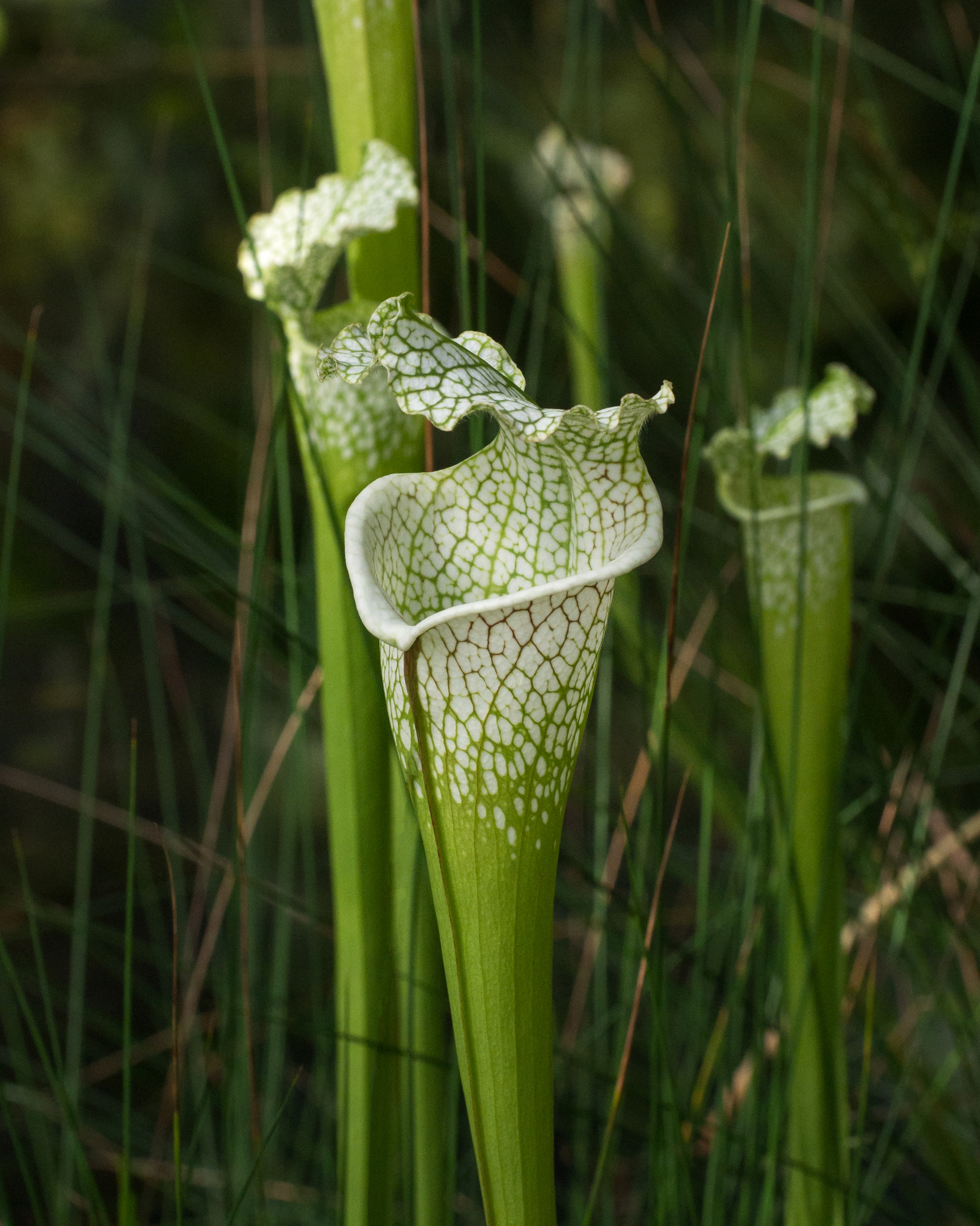 Crimson pitcherplant (purple trumpet-leaf, white pitcher plant, Sarracenia leucophylla) at the Brooklyn Botanic Garden.